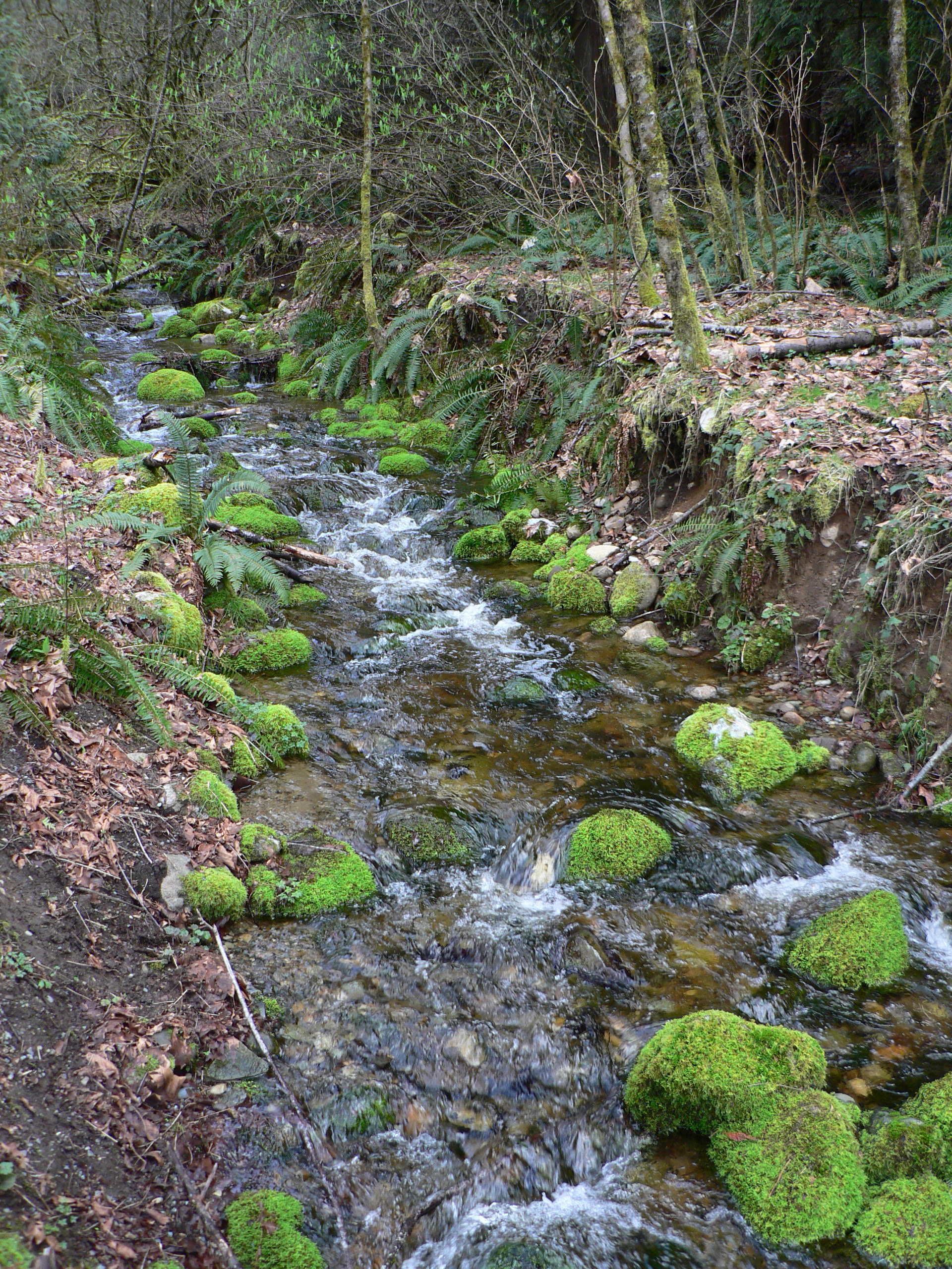 Coal Creek near Newcastle, King County, in western Washington state, USA. Moss Polystichum munitum, Alnus rubra on bank.